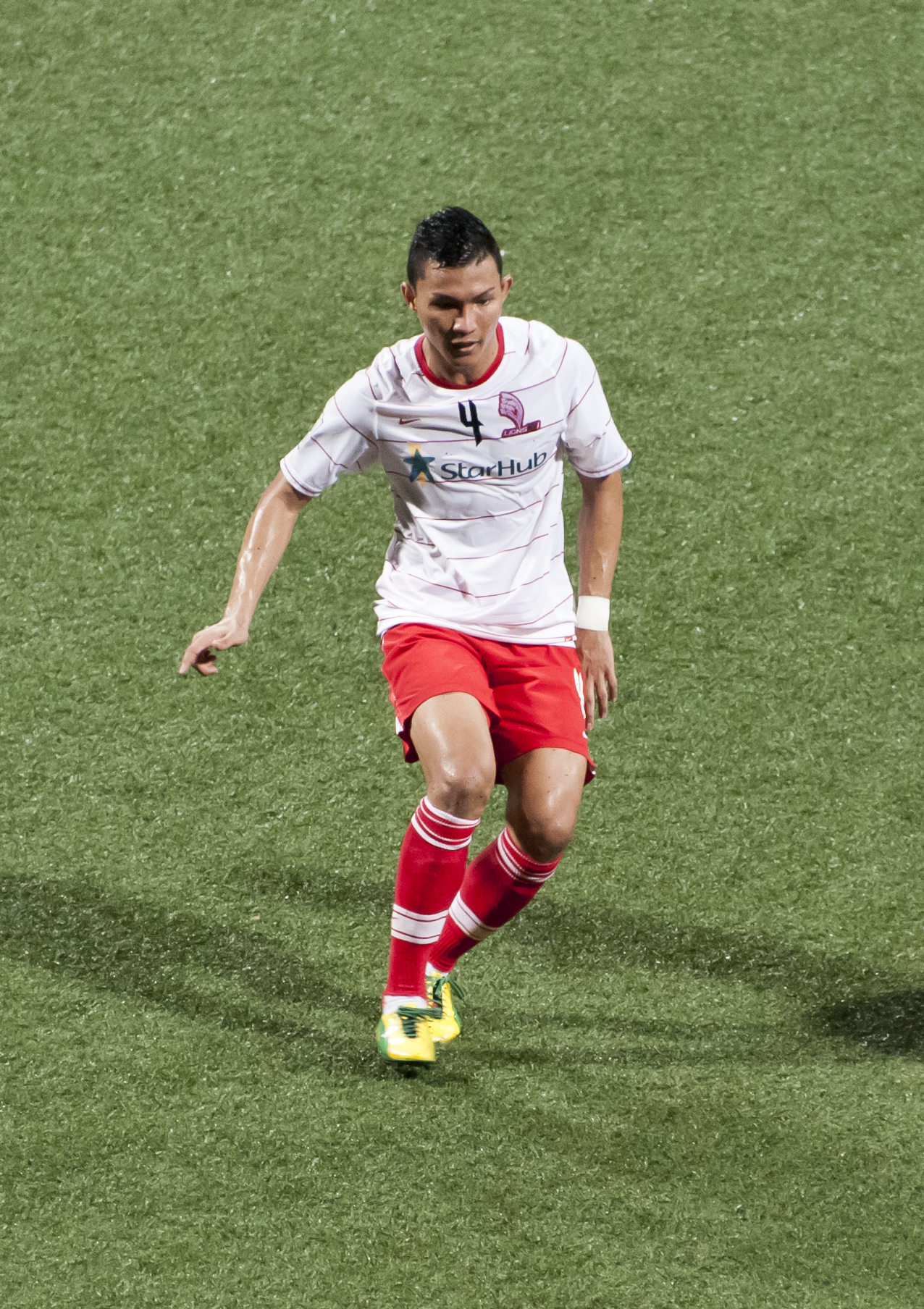 Isa Halim playing for the LionsXII in a 2012 Malaysian Super League match against Kuala Lumpur FA at the Jalan Besar Stadium, Singapore.